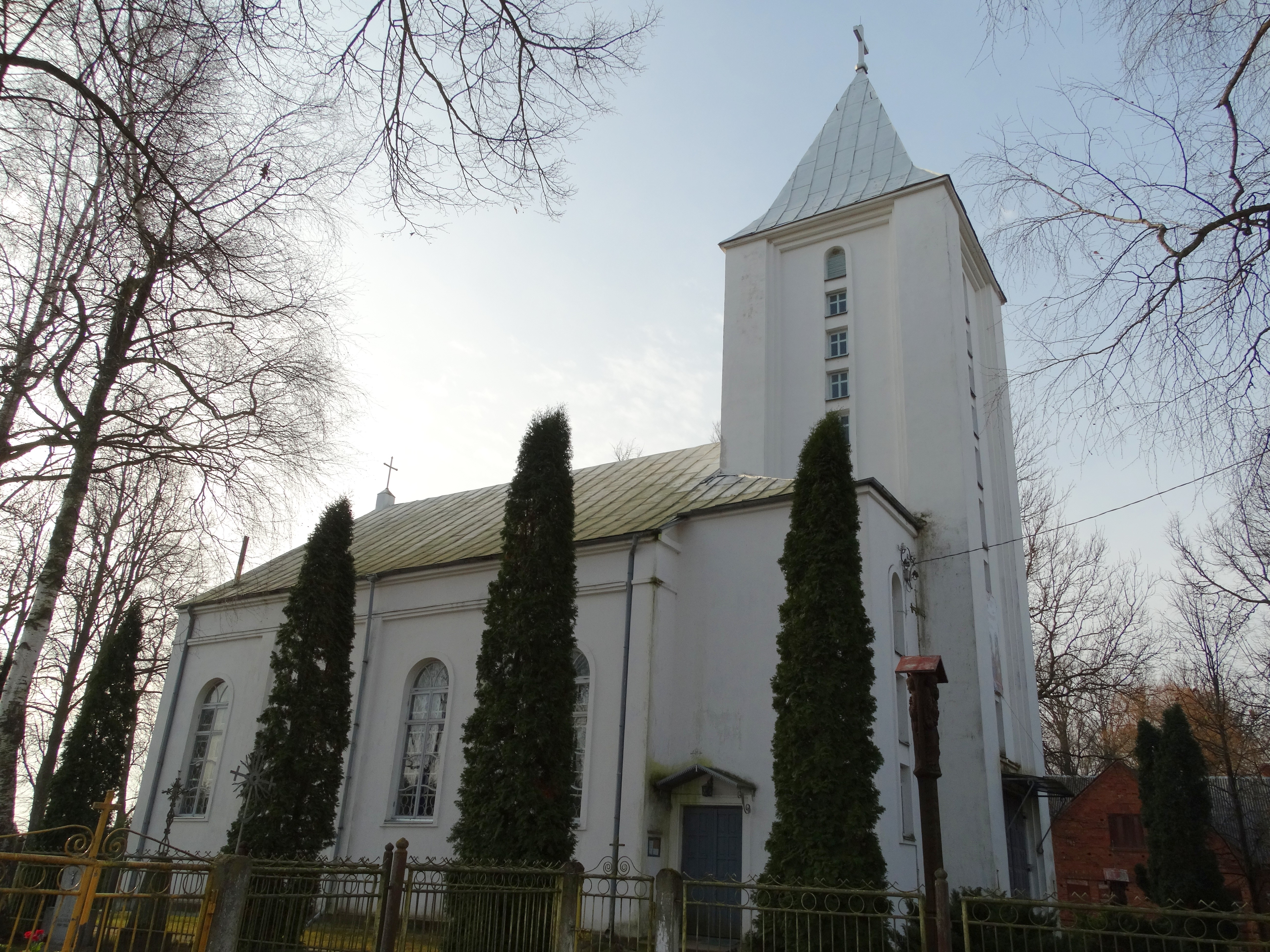 Roman Catholic Church, Smilgiai (Biržai), Lithuania